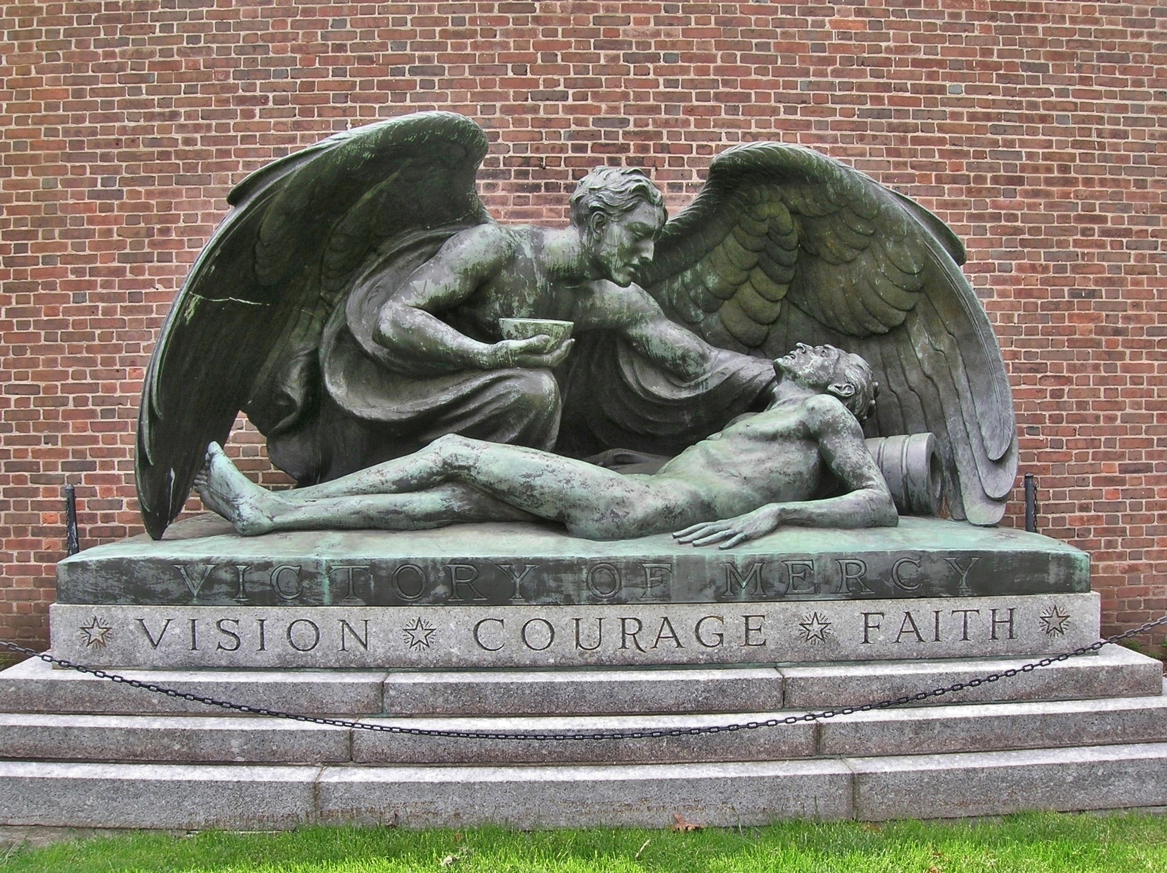 A kneeling winged-male "Angel of Mercy" administers to a reclining suffering male. The Angel holds a bowl in his proper left hand; and reaches out with his proper right arm to the man reclining in front of him. The reclining male's legs are crossed at the ankle. He is partially propped up with his elbows and his head rests on a roll. Supporting the work is a four-tiered, 30 inch high granite base with the inscription: VISION COURAGE FAITH on the top step.